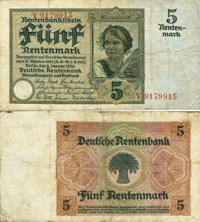 5 Rentenmark from 1926-1-2